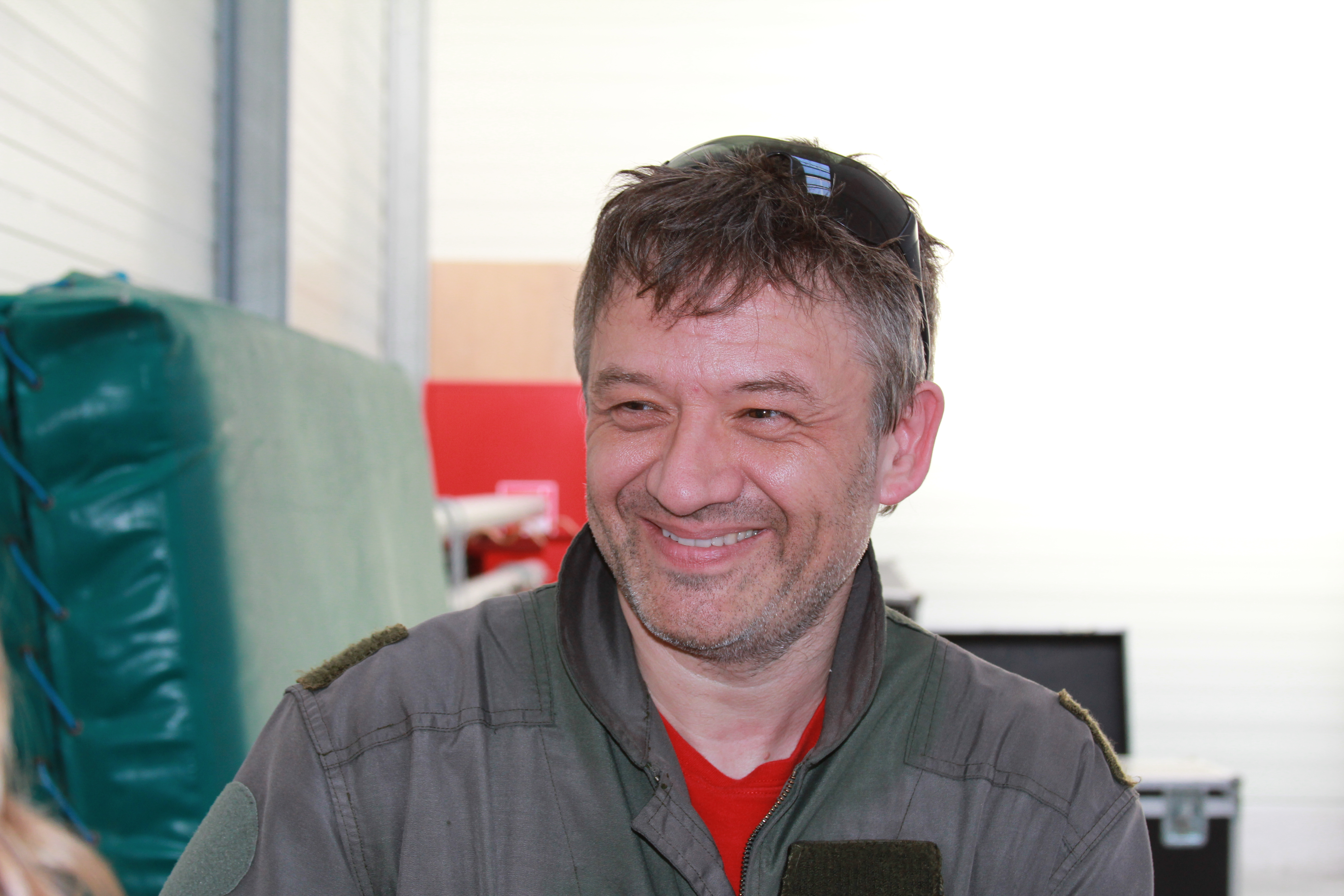 Photograph of Flemish singer-songwriter Bart Peeters.